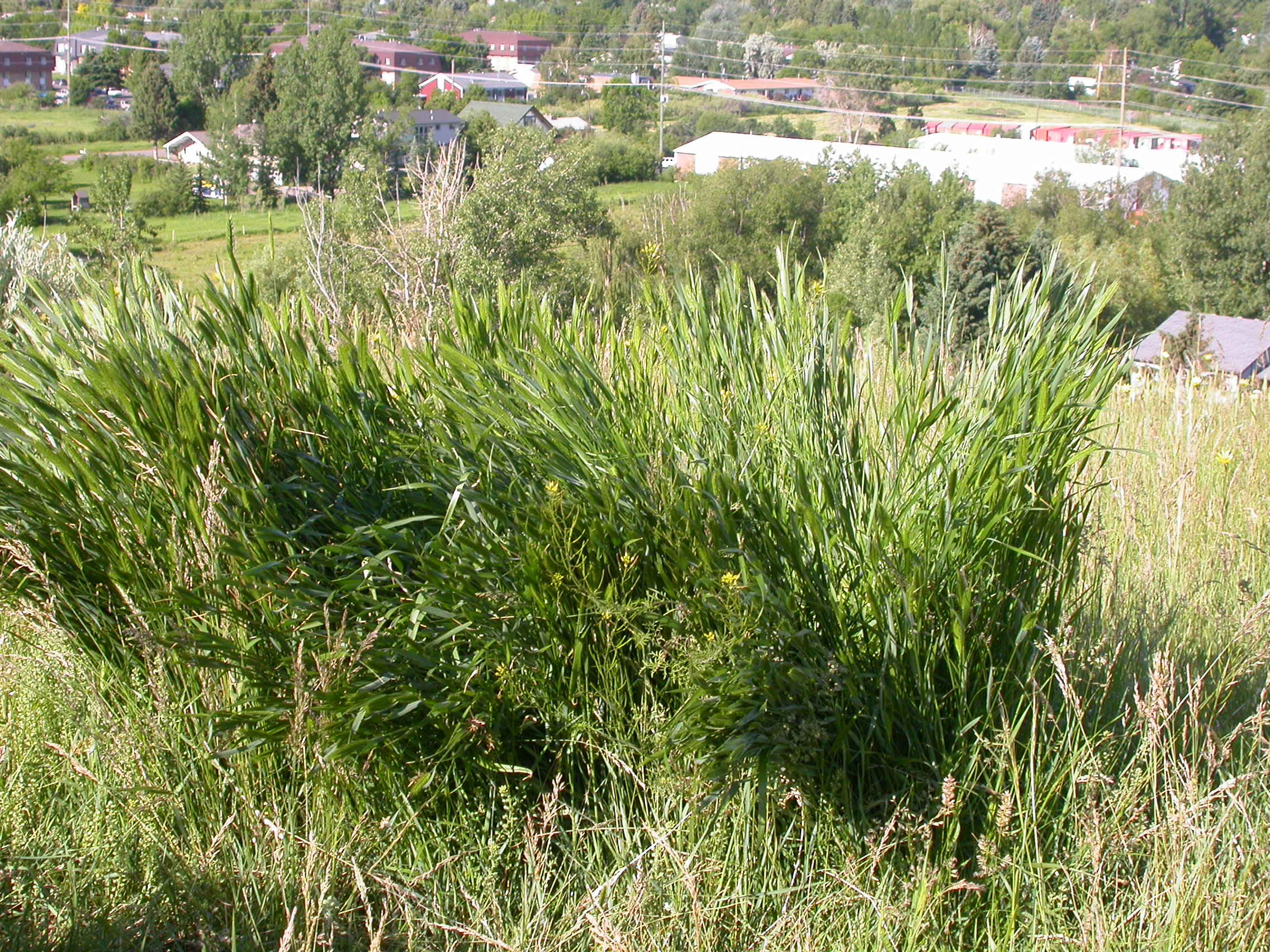 The perennial bunched habit is especially evident as summer progresses and surround herbs and grass are grazed and browsed leaving the silica-rich unpalatable created wheatgrass standing tall and untouched.